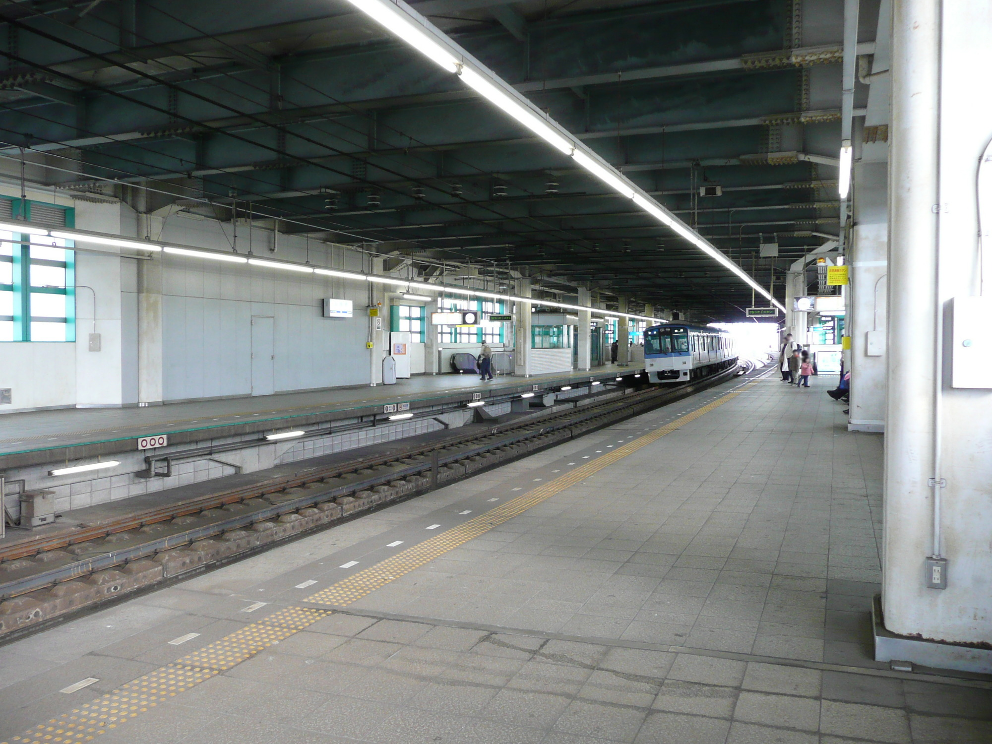 Hanshin Electric Railway,Main Line,Deyashiki Station platform. /阪神本線出屋敷駅ホーム